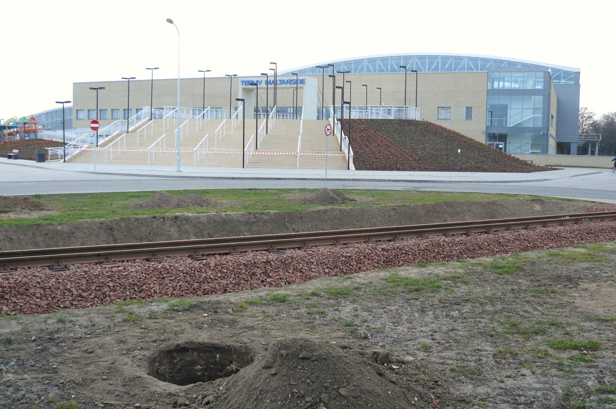 Termy Maltańskie. A new section of railway line Maltanka. Reconstruction of the line near the Term of Malta. 26.11.2011.